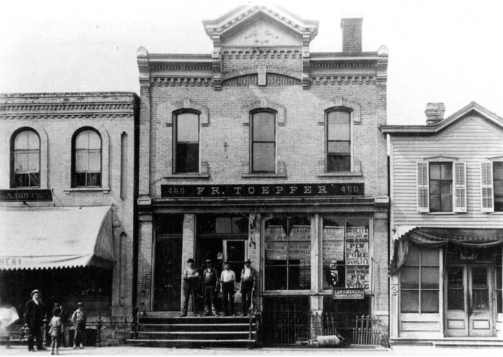 Frank Toepfer machine shop circa 1902, "the birhtplace of the first gasoline powered automobile" where Gottfried Schloemer built the first car